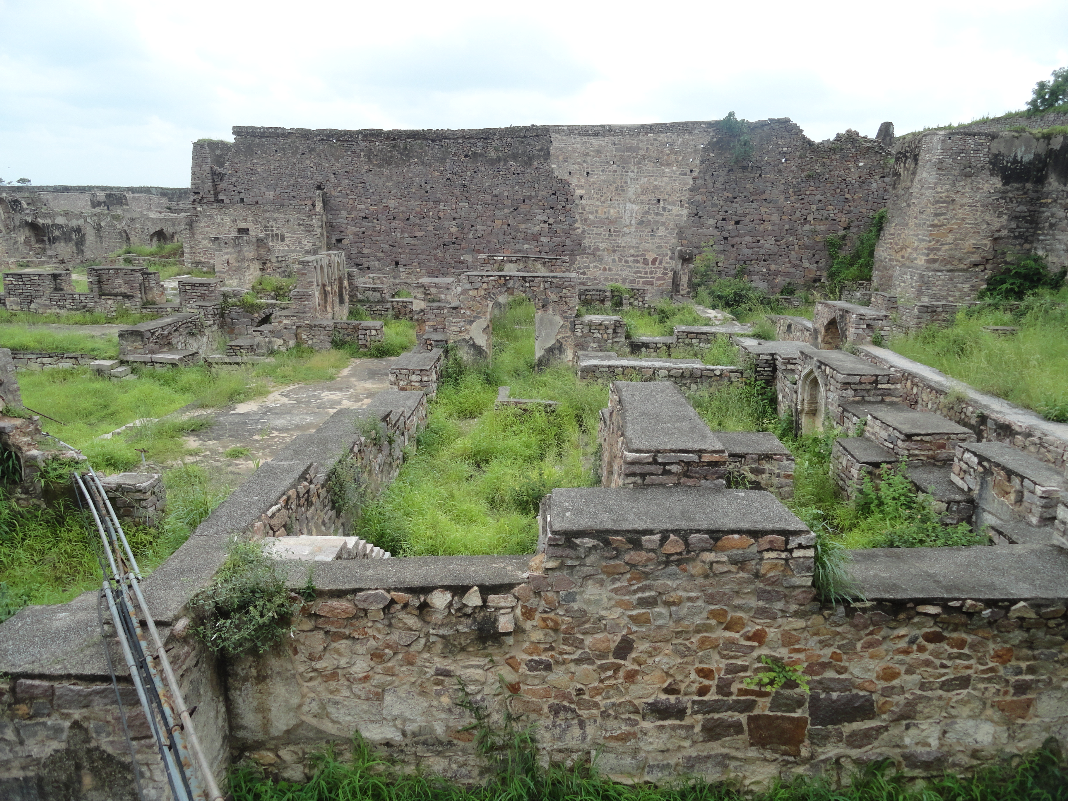 ruins inside janana enclave of golkonda fort